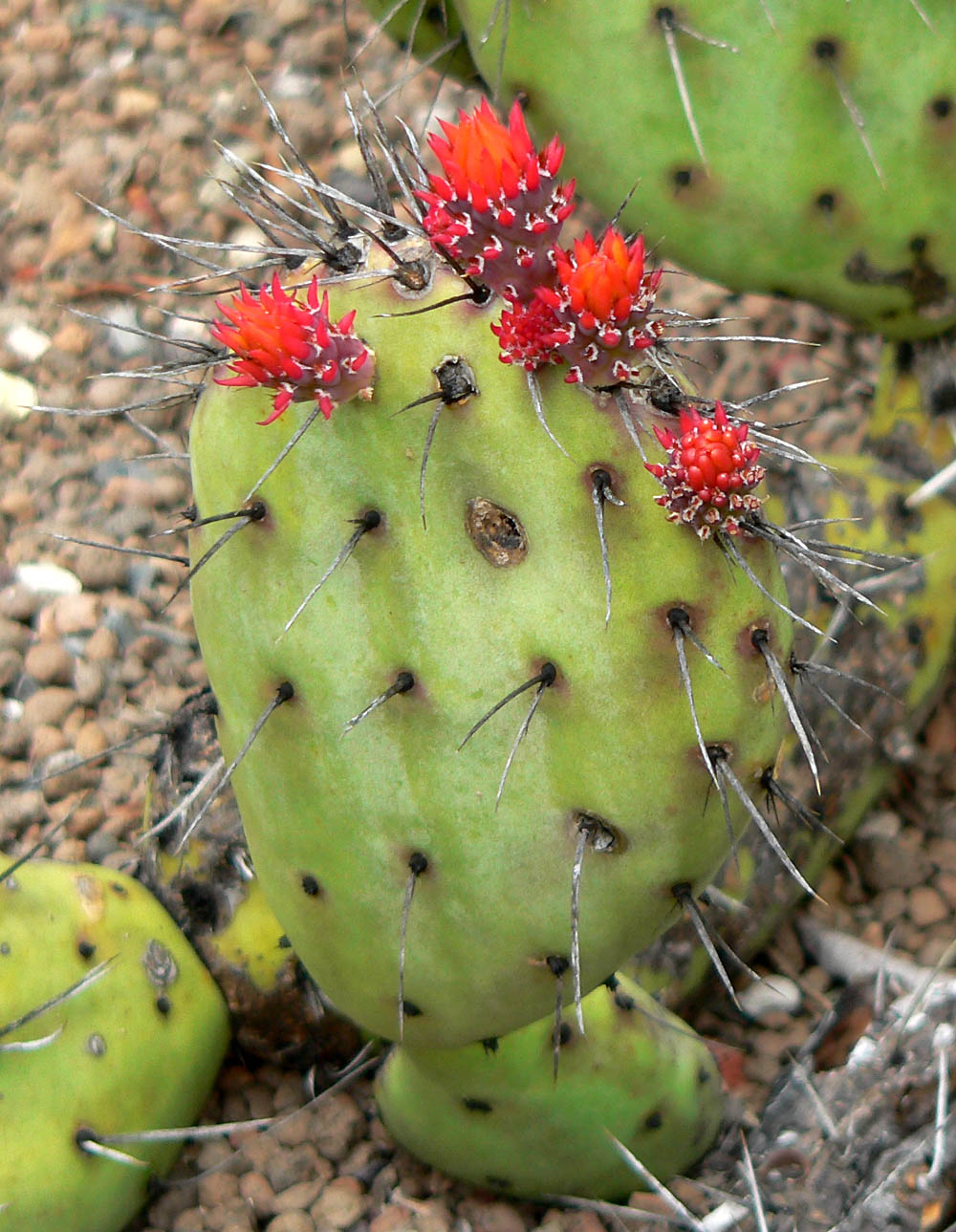 Photo of Opuntia riviereana at the University of California Botanical Garden